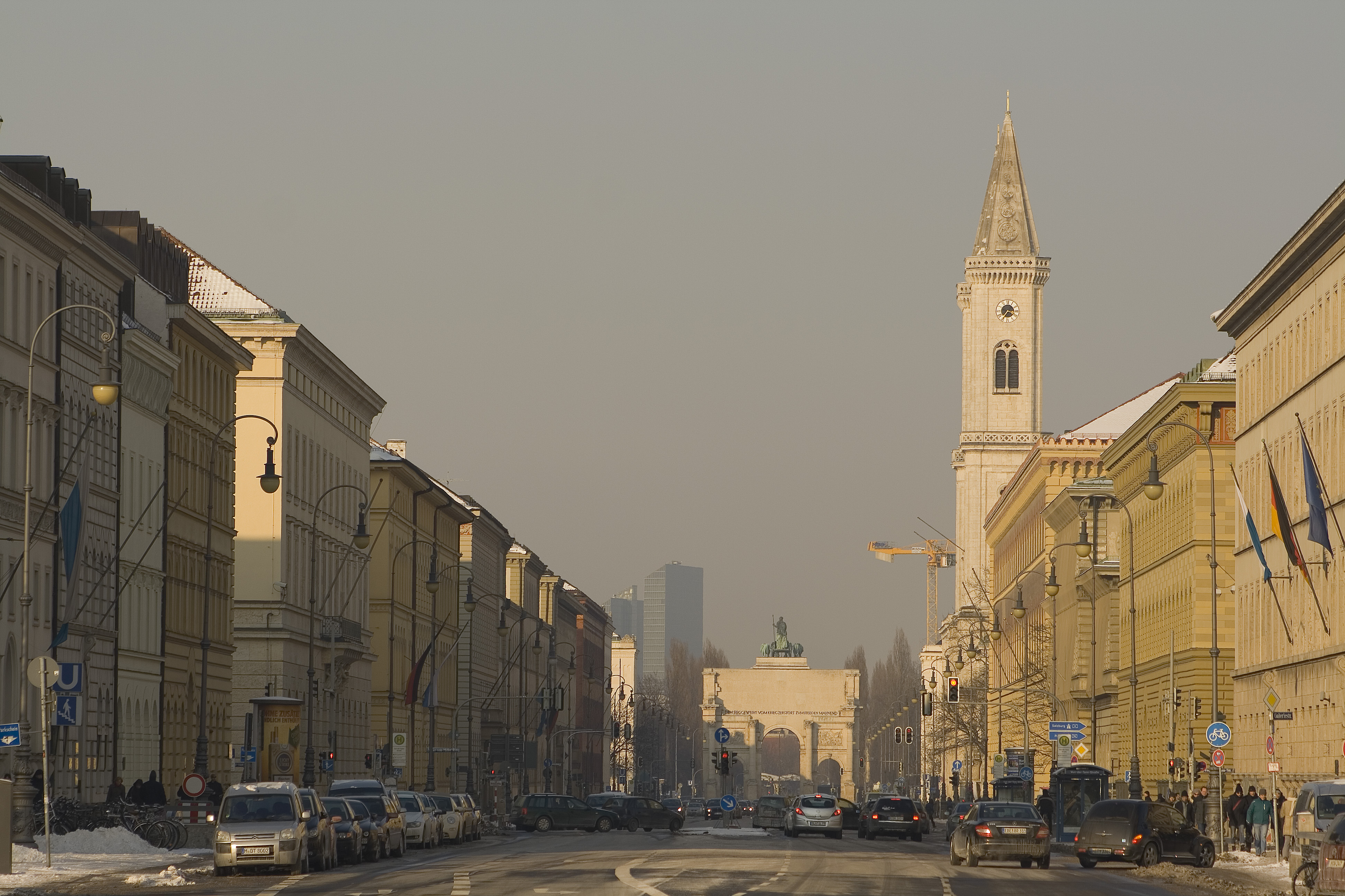 Ludwig Street, Munich, Germany